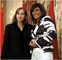 2007 International Women of Courage Award